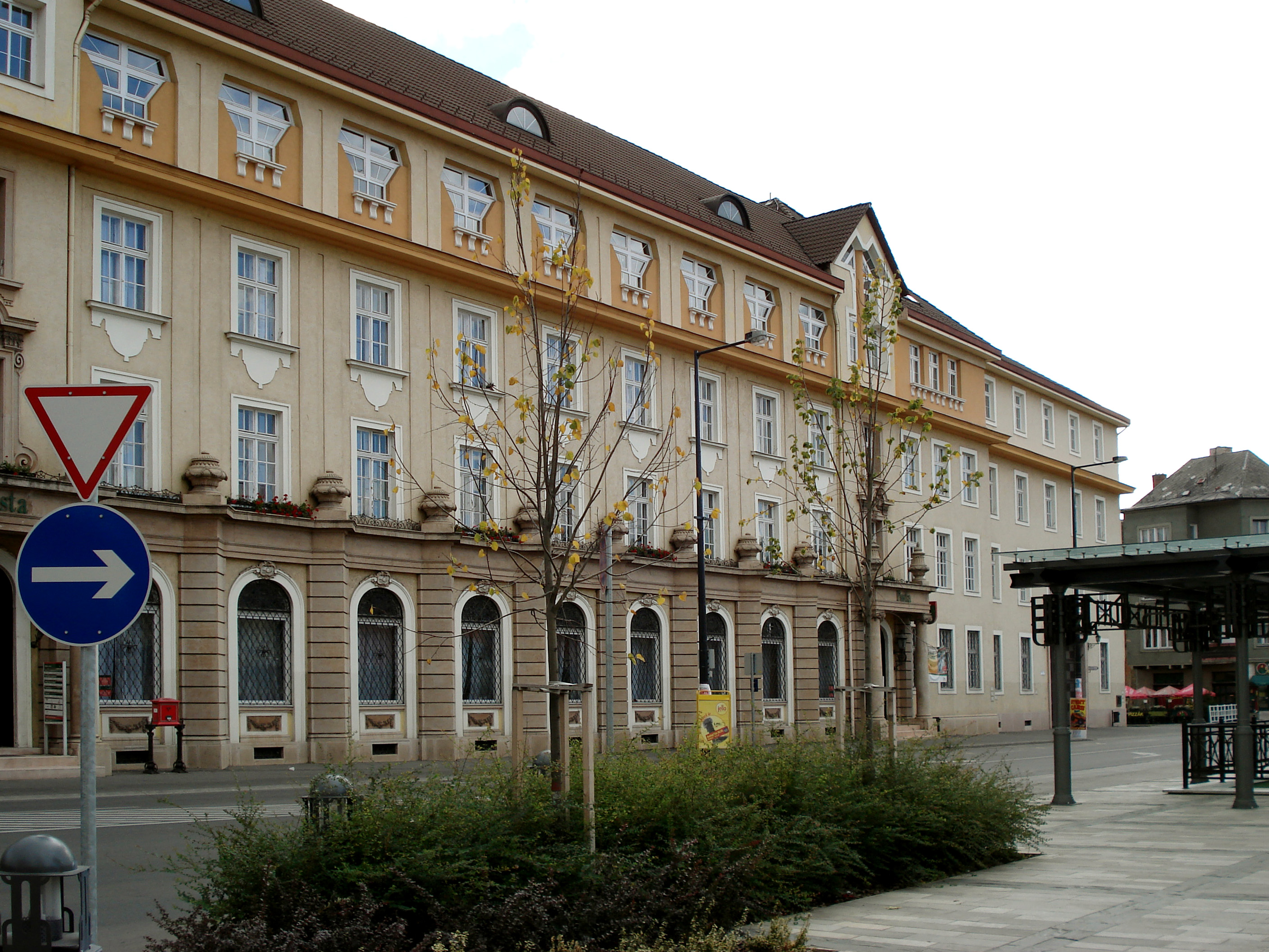 Main building of the General Post Office (Post Palace), Miskolc, Hungary